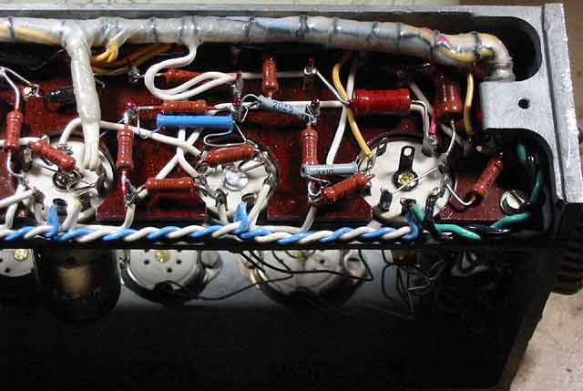 Detail of a 1960-s last generation Soviet tube gear.